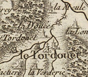 Cassini map of a part of Normandy